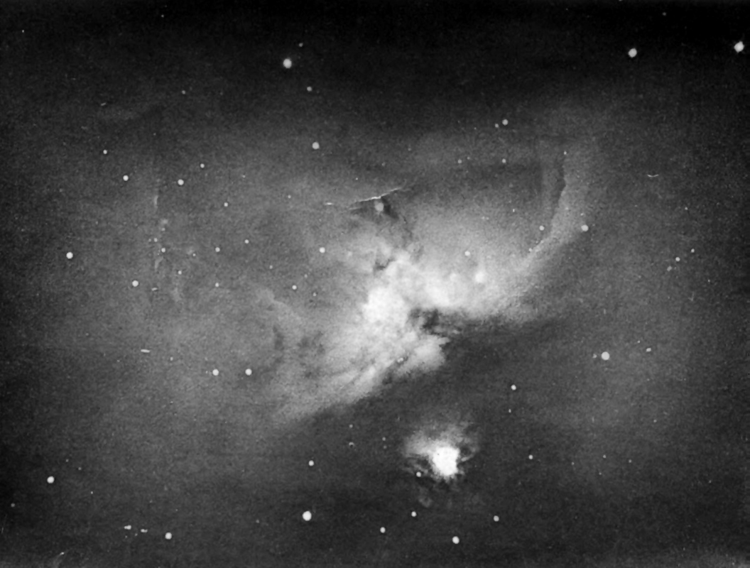 This is a scan of the 1883 photo of the Orion Nebula made by Andrew Ainslie Common (1841–1903) for which he won the Gold Medal of the Royal Astronomical Society in 1884.